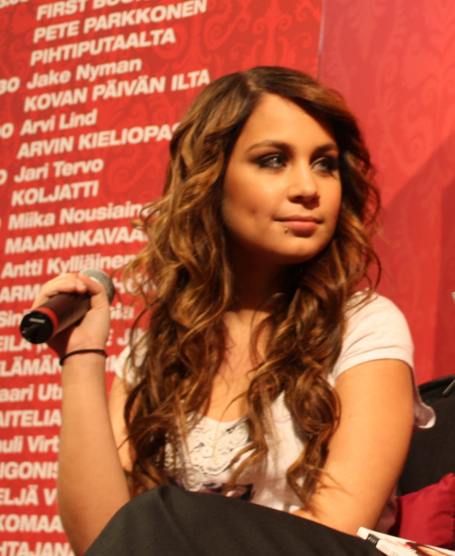 Vocalist Anna Abreu at Helsinki Book Fair in 2009